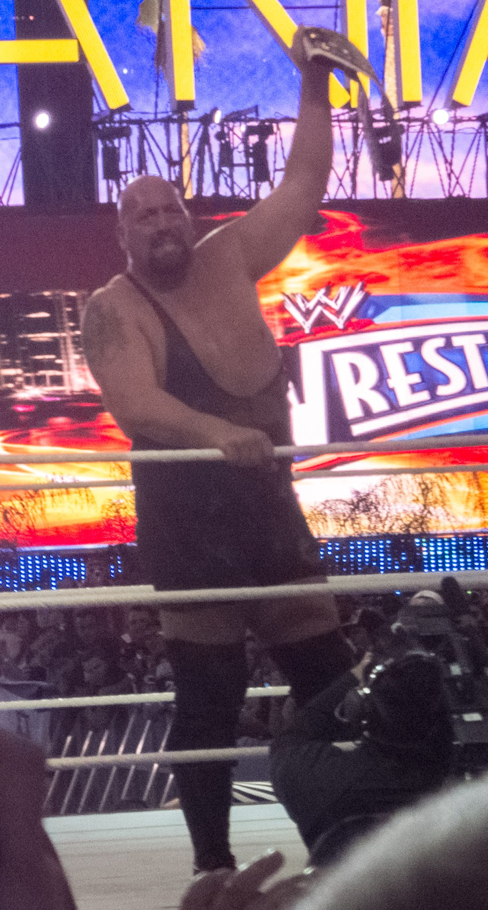 WWE Intercontinental Championship